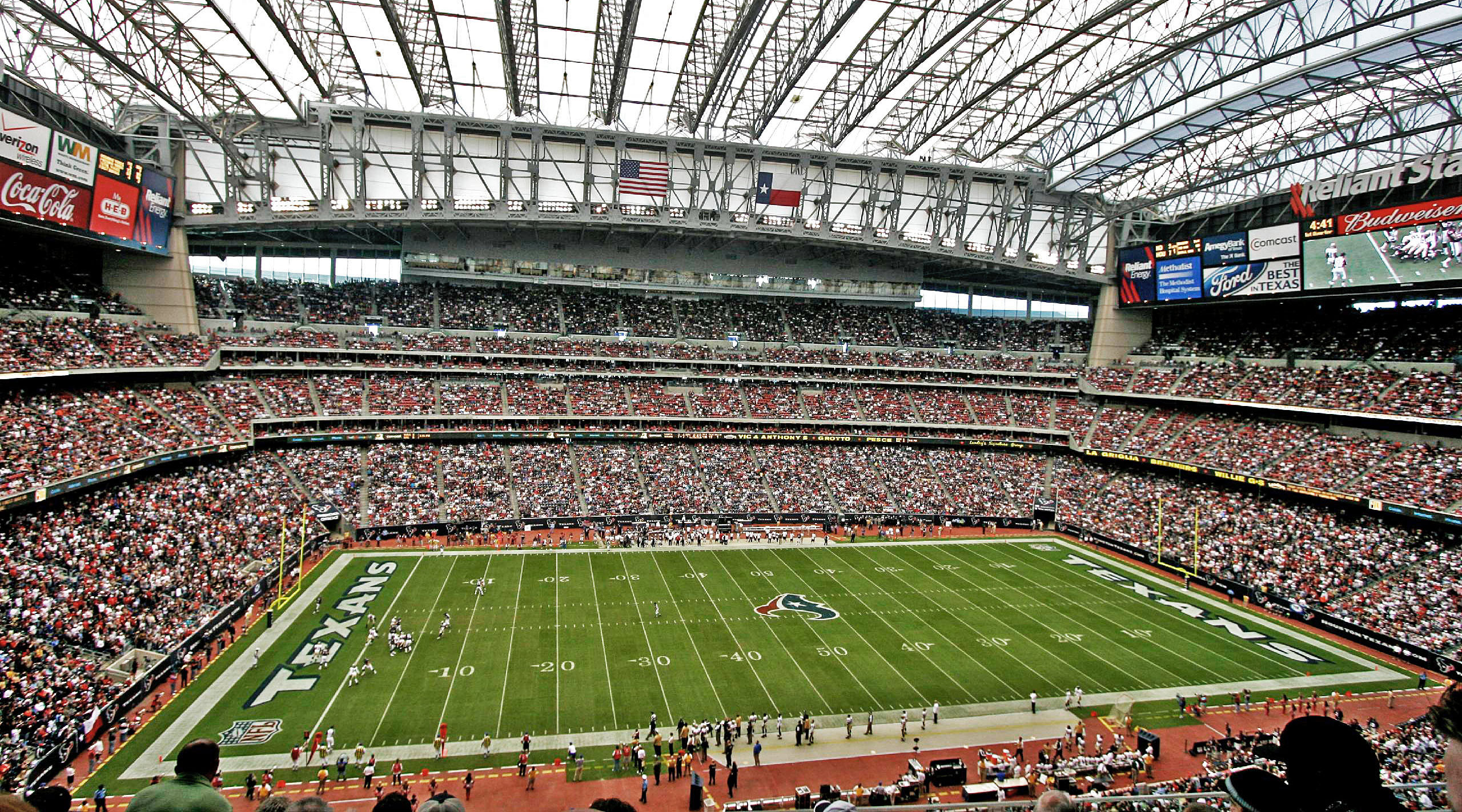 Interior of Reliant Stadium in Houston.